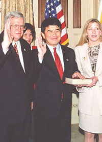 Representative David Wu (D-OR) was sworn in as a Member of the 106th Congress on January 6, 1999.